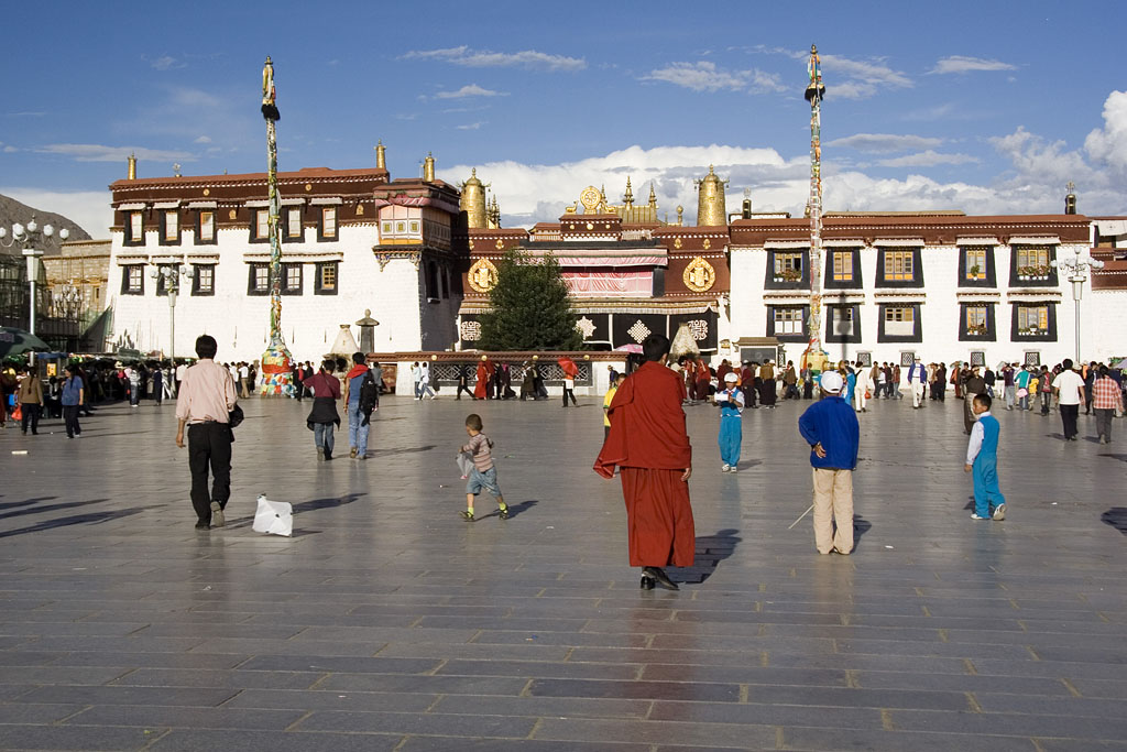 Barkhor square, Lhasa, Tibet.